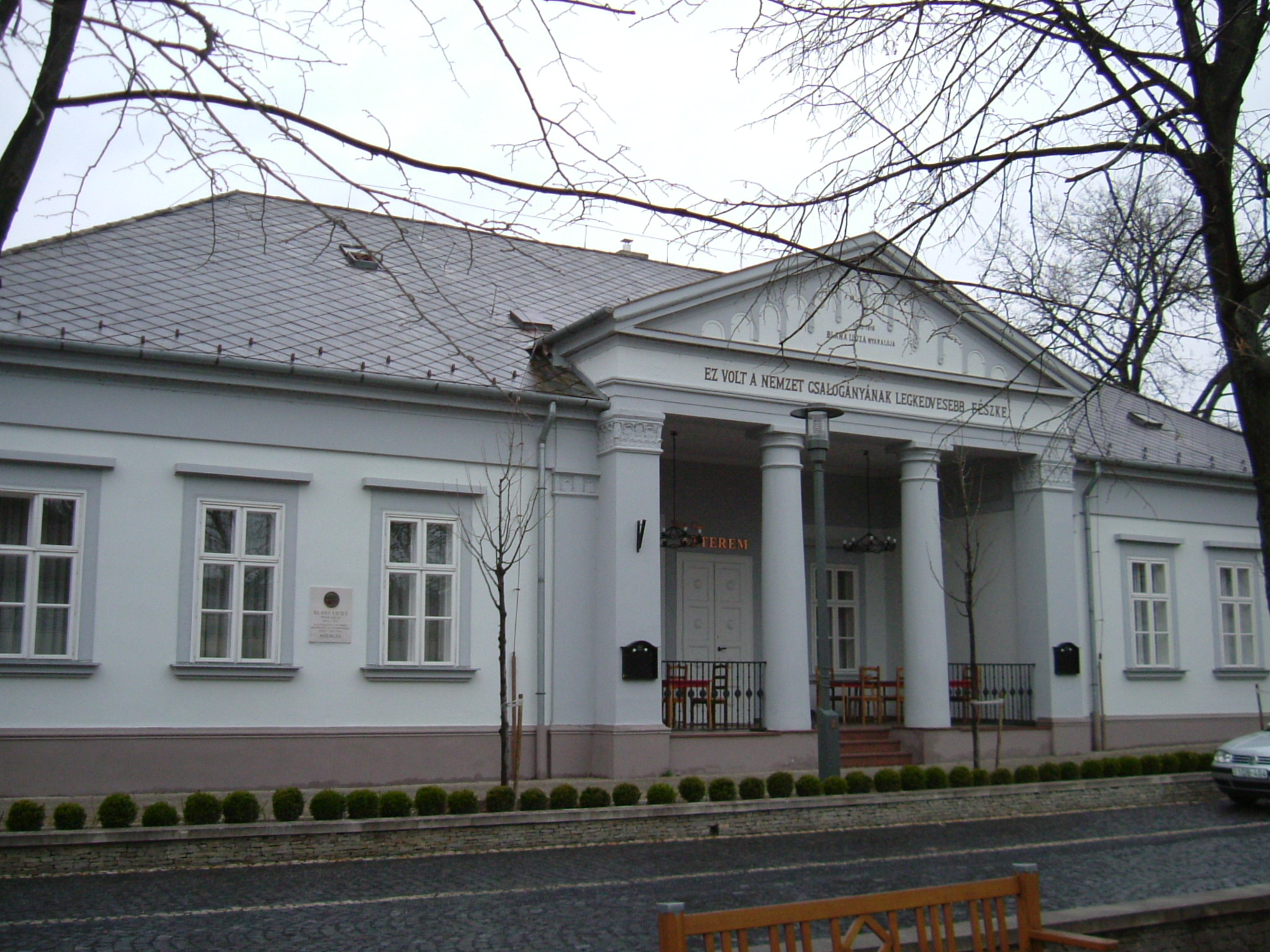 Balatonfüred-Hungary. Cottage of Lujza Blaha (actress)